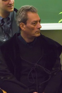 Paul Auster on 19 september 2007.